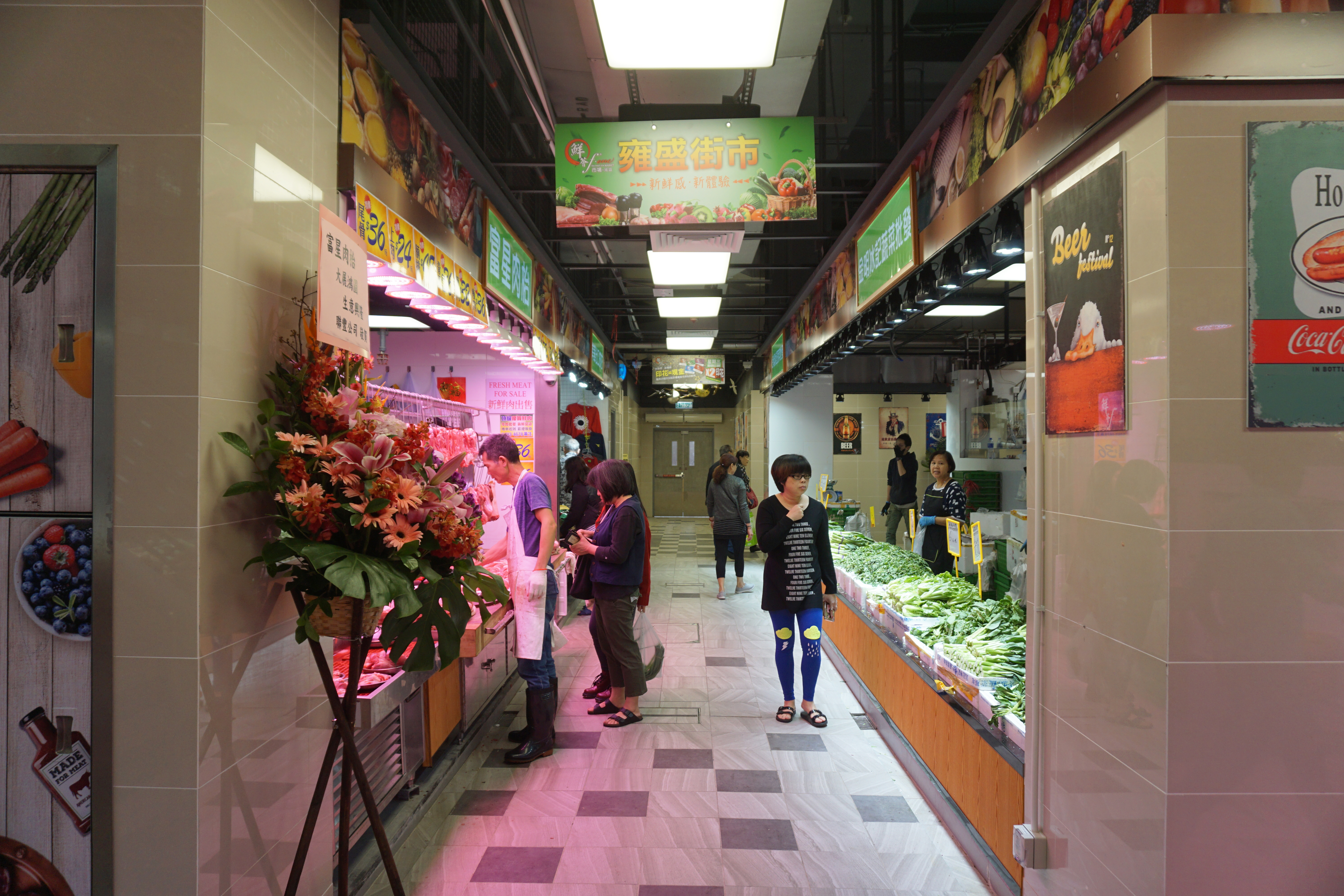 Yung Shing The Fresh One Market in Fanling, Hong Kong.